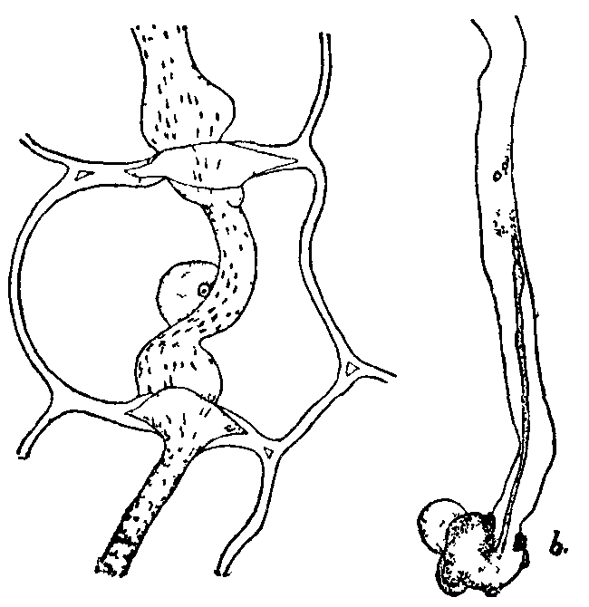 Illustration from 1911 Encyclopædia Britannica, article BACTERIOLOGY. Fig. 15.—Invasion of leguminous roots by bacteria. a, cell from the epidermis of root of Pea with "infection thread" (zoogloea) pushing its way through the cell-walls. (After Prazmowski.) b, free end of a root-hair of Pea; at the right are particles of earth and on the left a mass of bacteria. Inside the hair the bacteria are pushing their way up in a thin stream. (From Fischer's Vorlesungen uber Bakterien.)